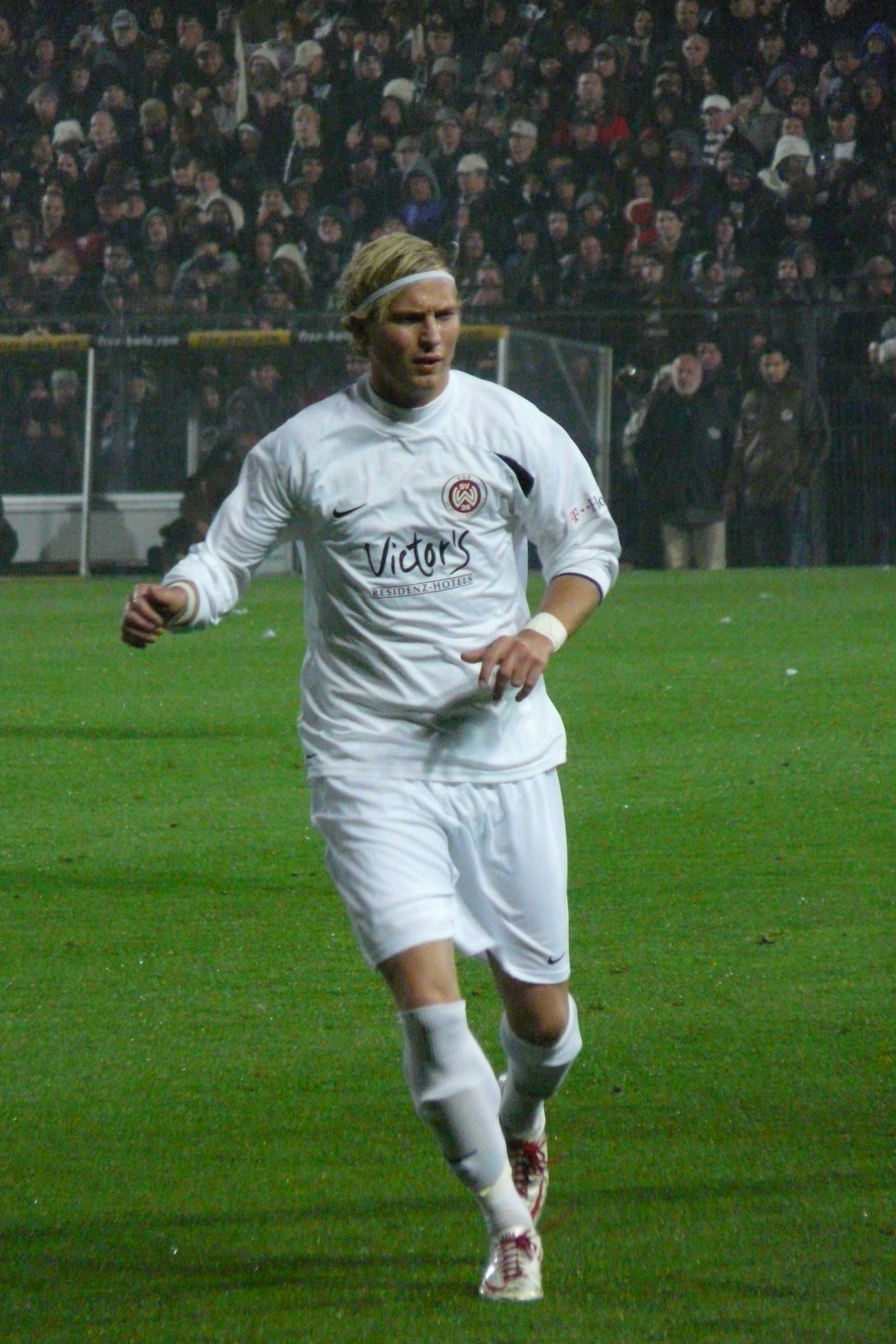 Dennis Schmidt as Player from SV Wehen Wiesbaden